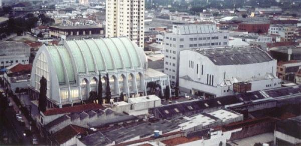 Mother Church of the Christian Congregation in Brazil, located at the Italian Braz District, in Sao Paulo, Brazil. Public Domain.